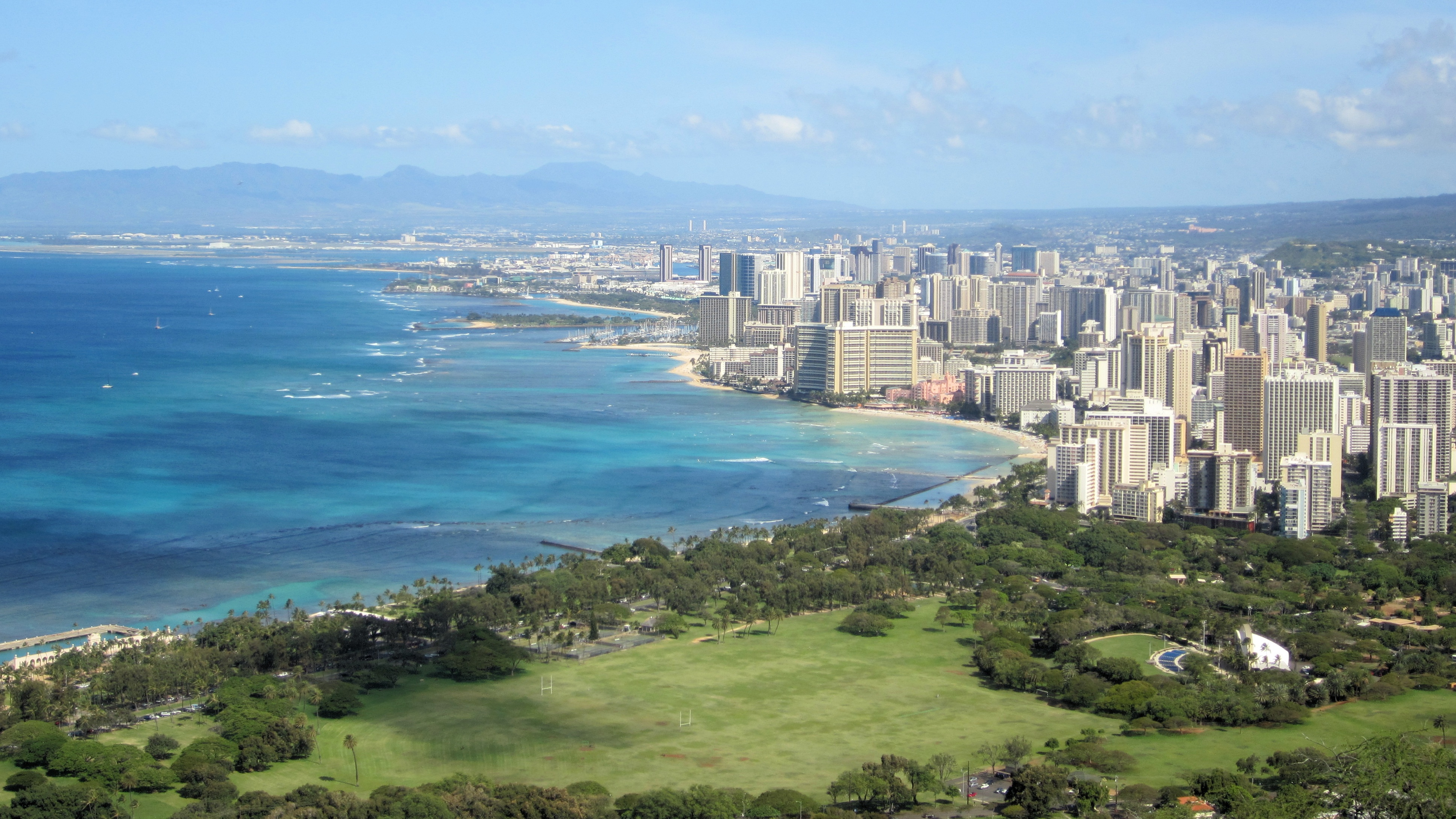 Waikiki and Downtown Honolulu, view from Diamond Head/Lēʻahi